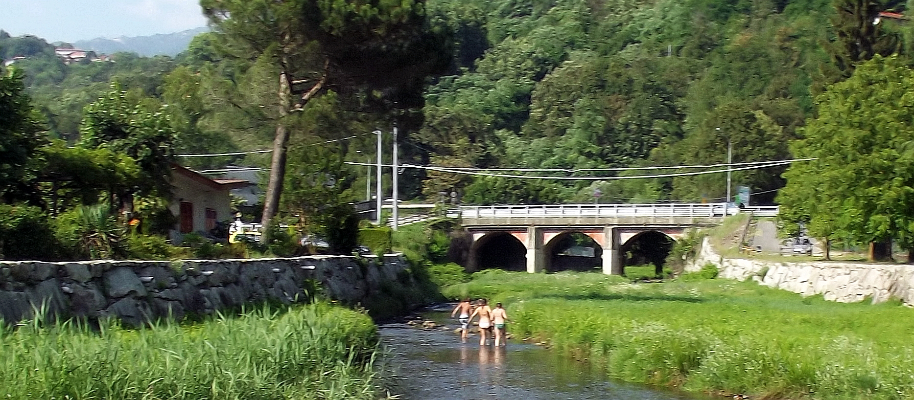 Former national road 229 del Lago d'Orta: bridge on the Pescone creek